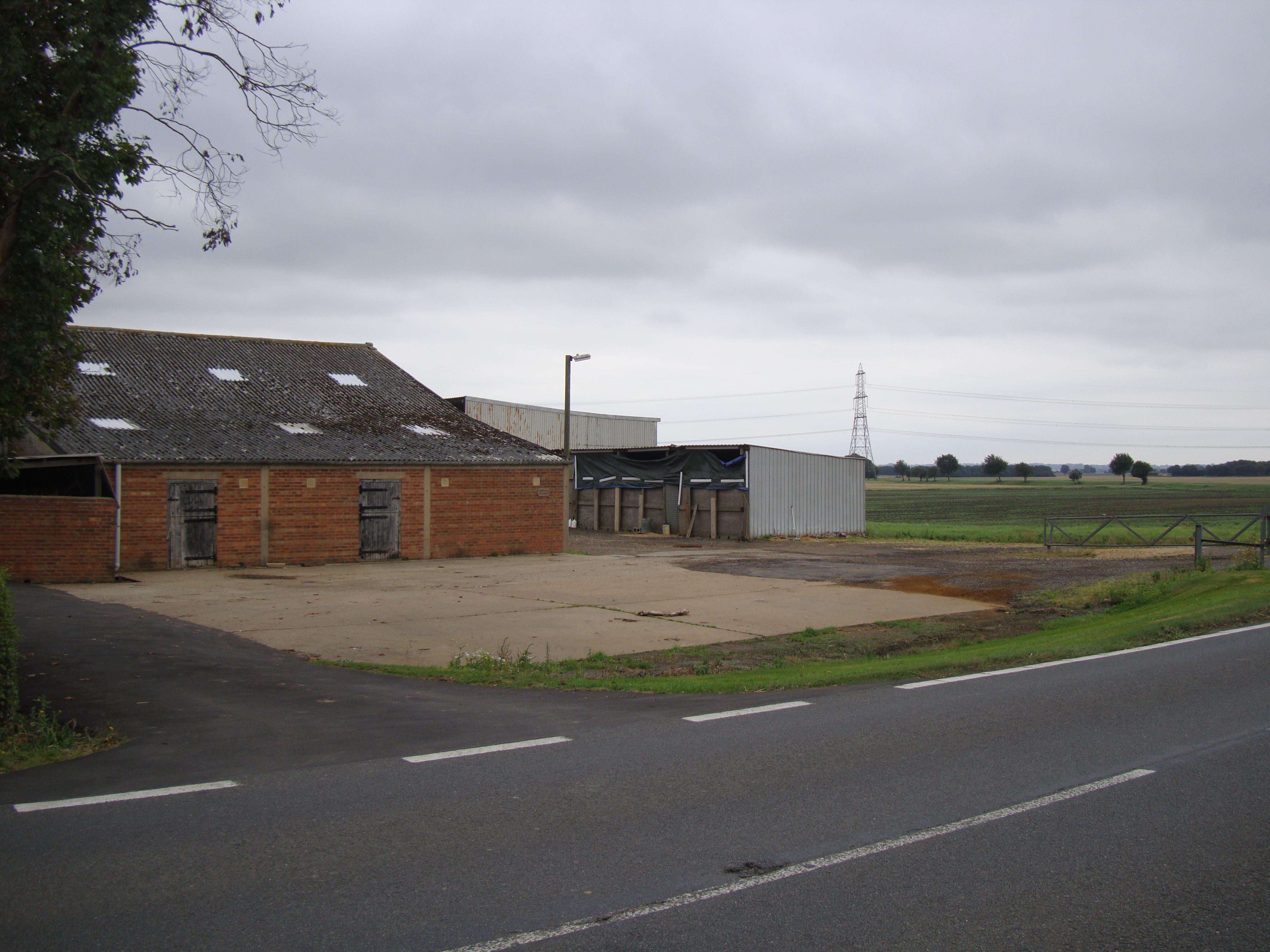 Photograph of the site of Molycourt (Mullicourt) Priory, Norfolk, England, now partly-occupied by a farmhouse